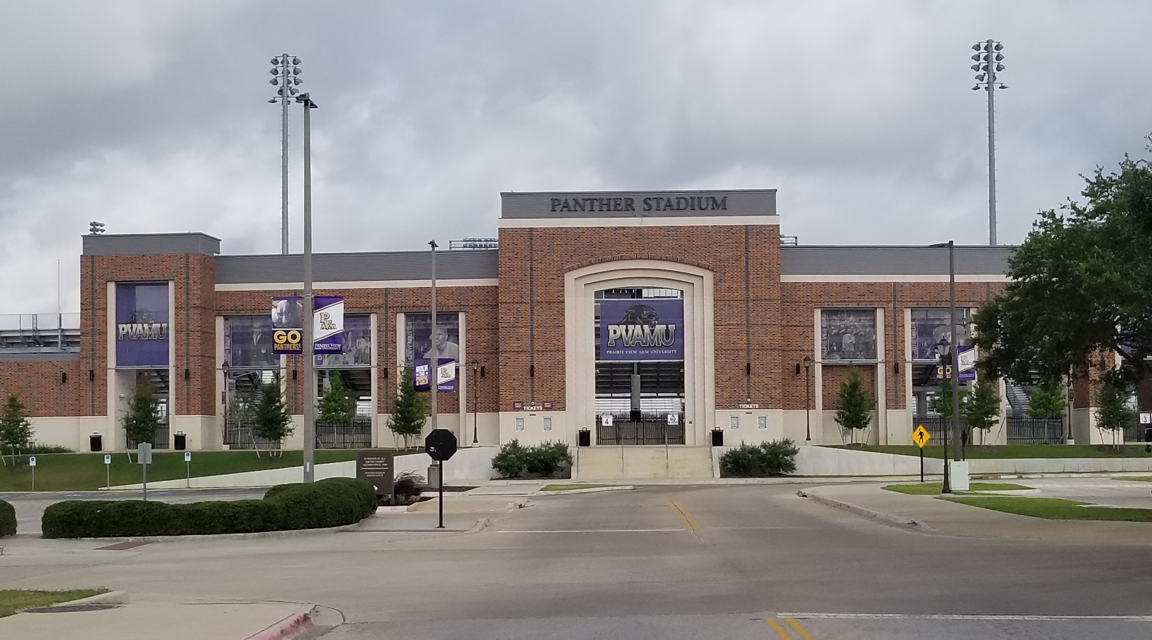 Visitor side of Panther Staduim